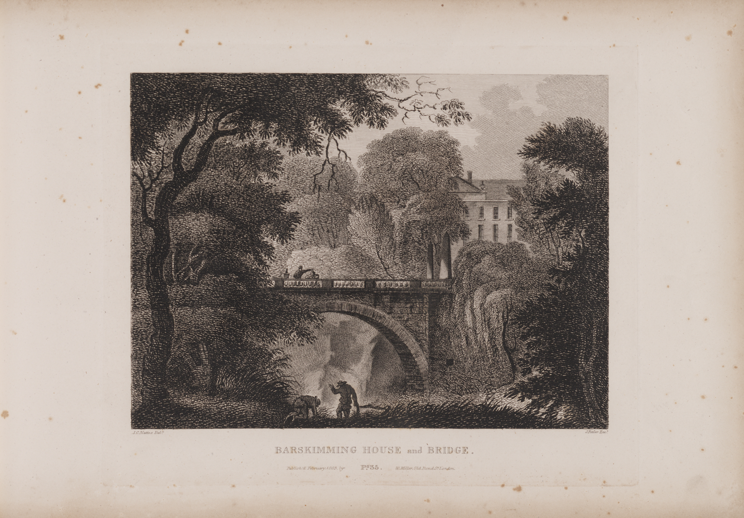 Plate XXXV/b - John Claude Nattes made drawings of suitable scenes on the spot; etchings are by James Fittler.